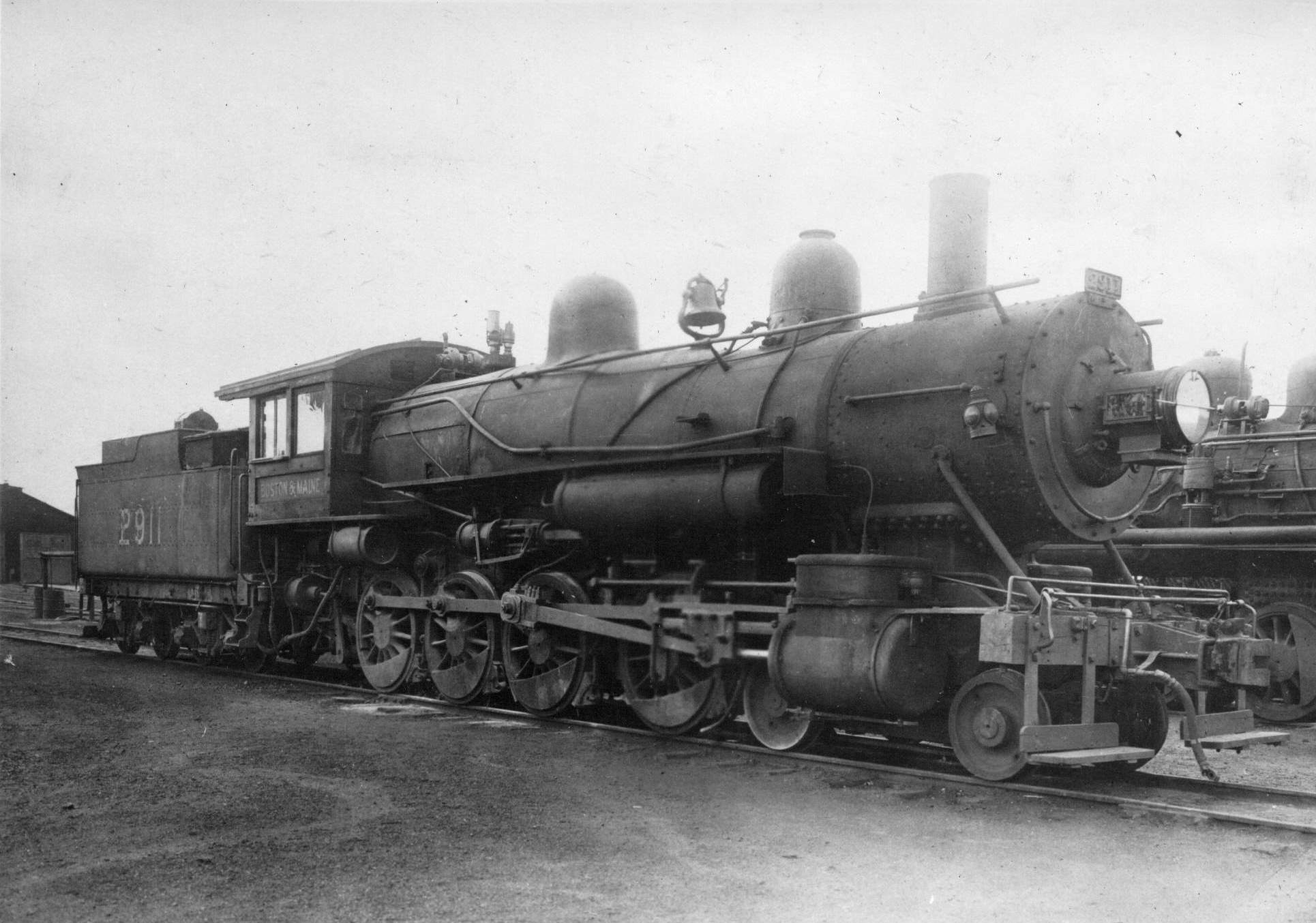 Boston & Maine Railroad steam locomotive #2911 (class L-1-b, Rhode Island Locomotive Works of 1900) at Billerica, Massachusetts in 1920